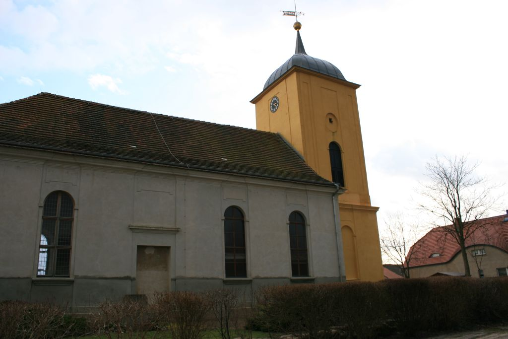 Church in Wagenitz in Brandenburg, Germany